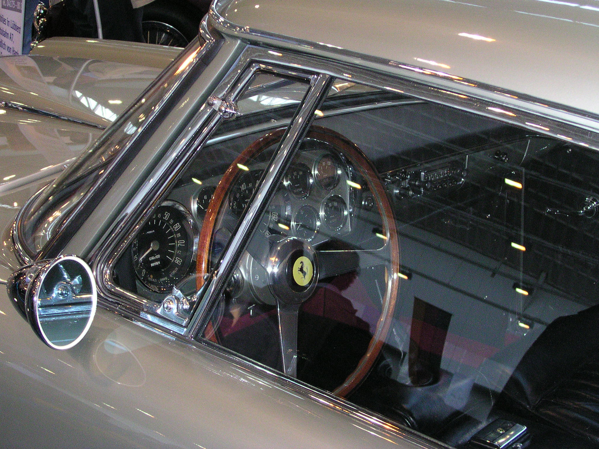 Essen Techno-Classica 2007, Ferrari 250 GT PF Coupé, Series II 1959, V12 engine, 2953 cc